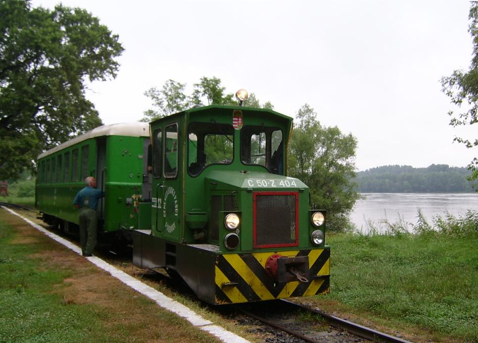 Narrow gauge lokomotiv in Hungary. (typ.: C50-Z) Forest Railway of Gemenc, Hungary